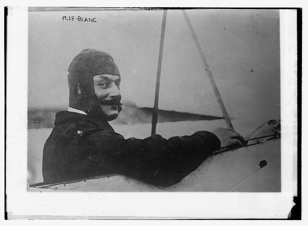 M. Le Blanc (LOC) Bain News Service,, publisher. Msr. Alfred le Blanc [between ca. 1910 and ca. 1915] 1 negative : glass ; 5 x 7 in. or smaller. Notes: Title from unverified data provided by the Bain News Service on the negatives or caption cards. Photo shows French aviator Alfred LeBlanc (1869-1921). (Source: Flickr Commons project, 2008) Forms part of: George Grantham Bain Collection (Library of Congress). Subjects: Air pilots Format: Glass negatives. Repository: Library of Congress, Prints and Photographs Division, Washington, D.C. 20540 USA, General information about the Bain Collection is available at Persistent URL: Call Number: LC-B2- 2241-6